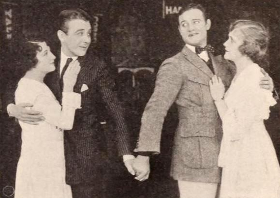 Still from the American film Brown of Harvard (1918) with Hazel Daly, Tom Moore, and an unidentified actor and actress, on page 25 of the January 12, 1918 Exhibitors Herald.